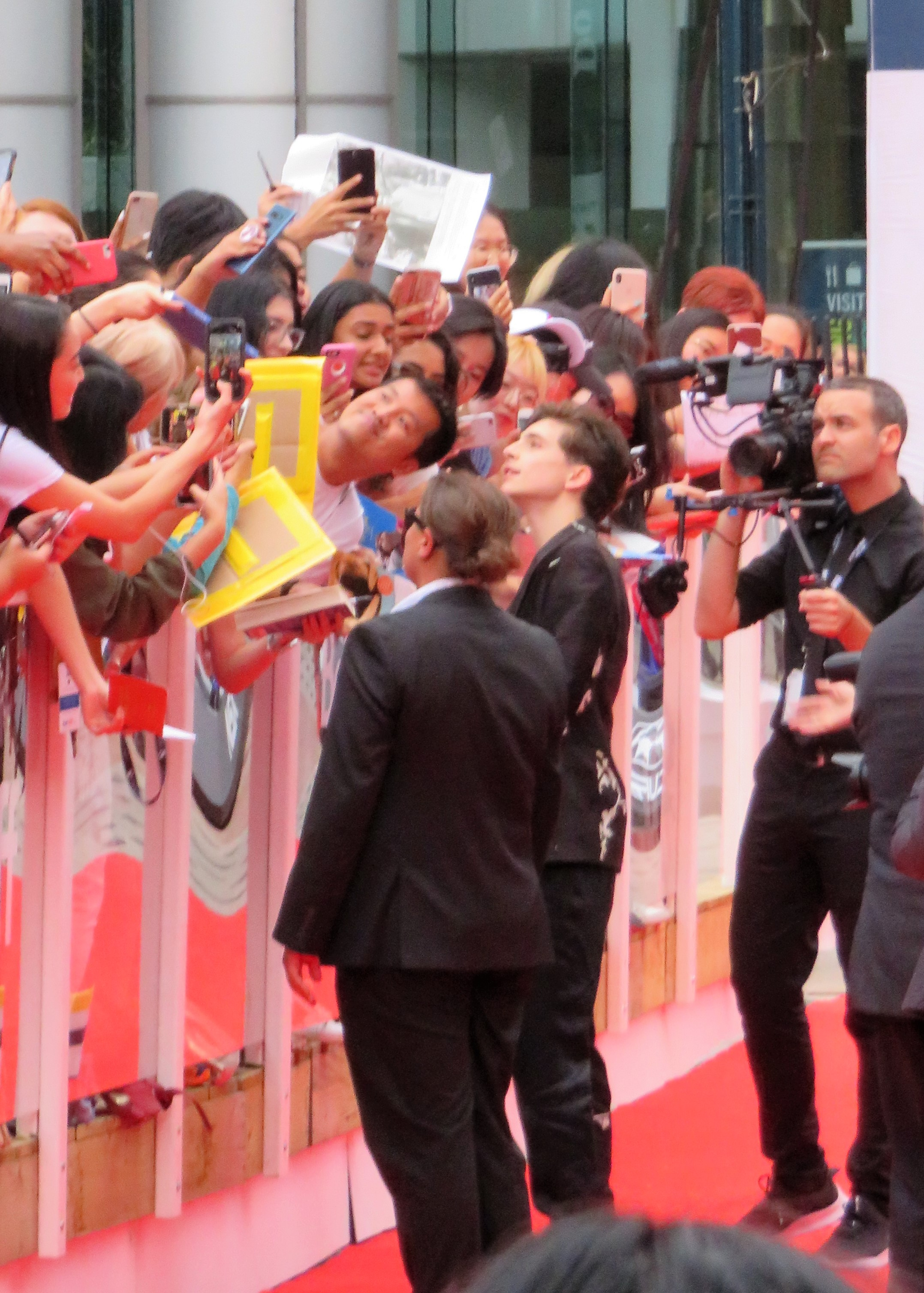 Timothee Chalamet at the premiere of Beautiful Boy, 2018 Toronto Film Festival.